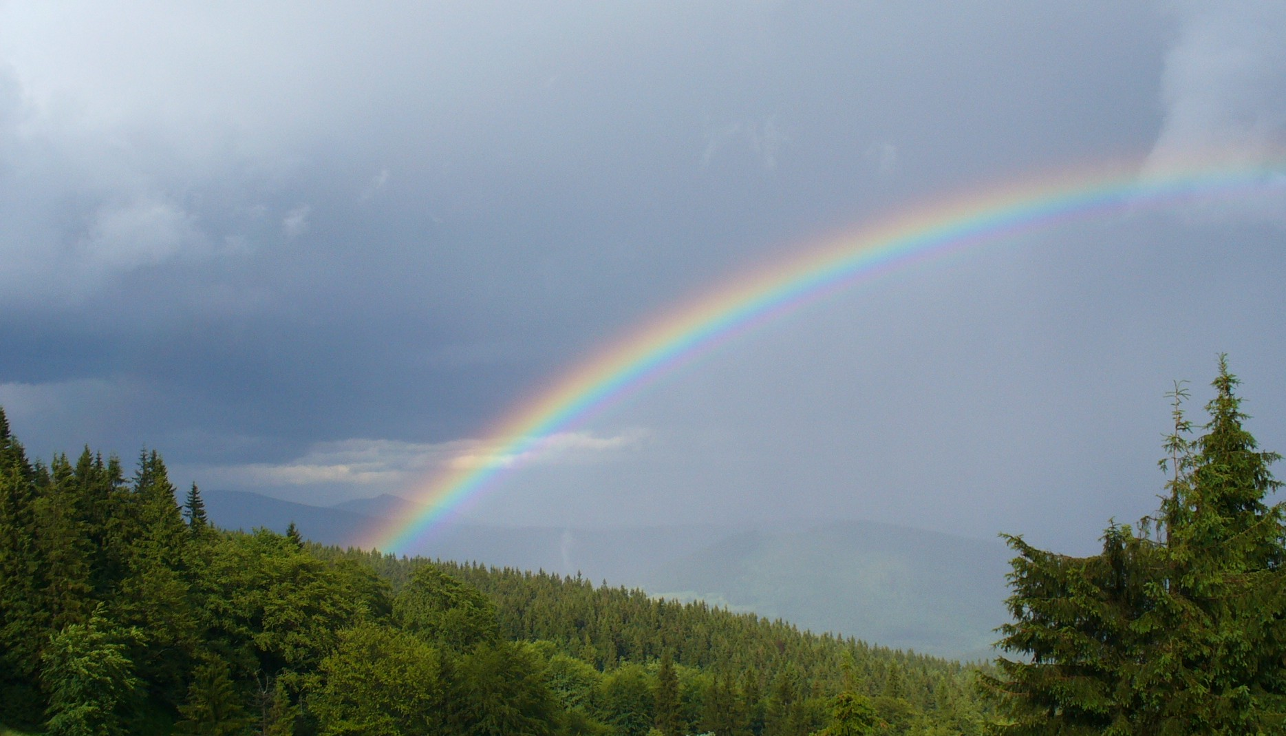 Rainbow in polish mountains (Beskid Żywiecki).